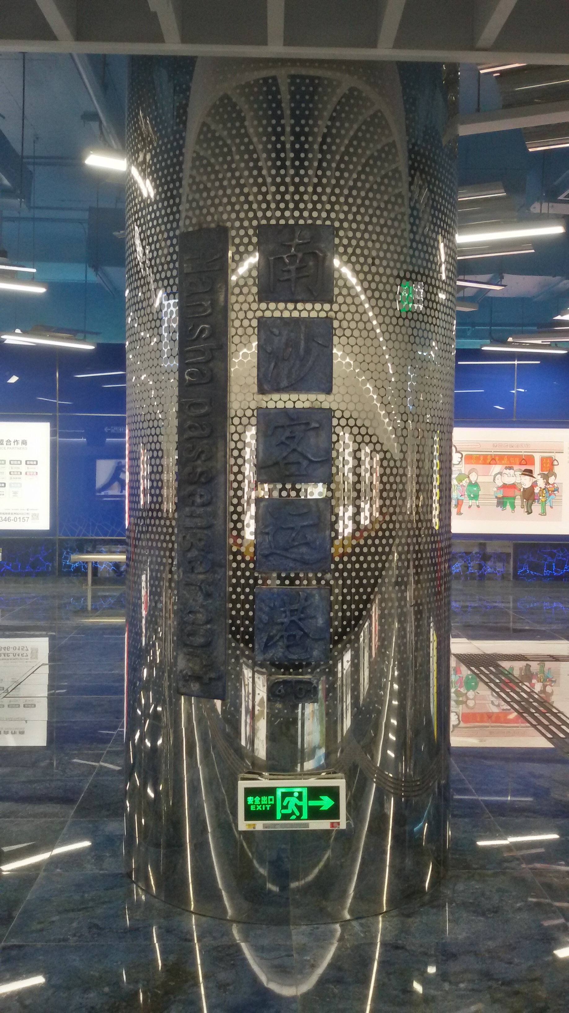 WORD on PILLAR for Nansha Passenger Port Station in Guangzhou Metro